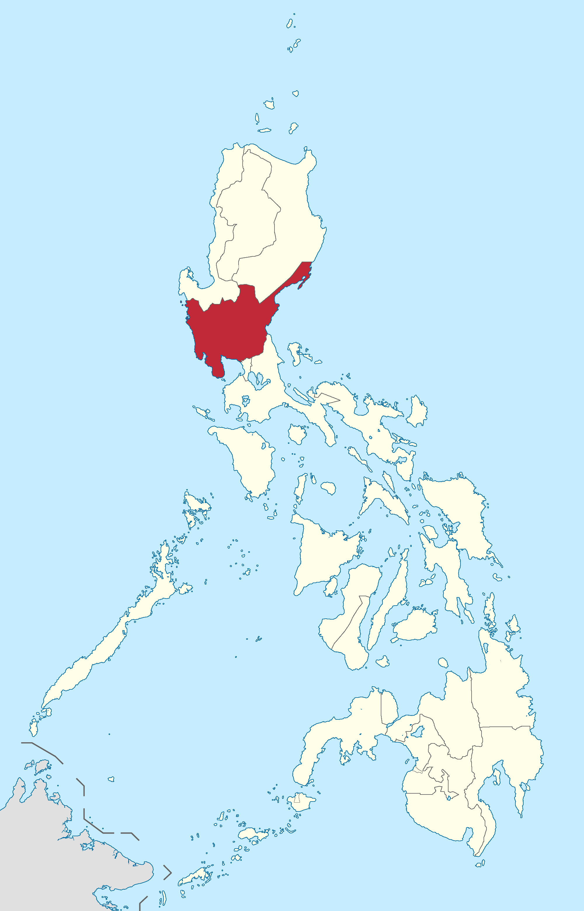 Location of Central Luzon region in the Philippines Filipino: Kinaroroonan ng rehiyon ng Gitnang Luzon sa Pilipinas.